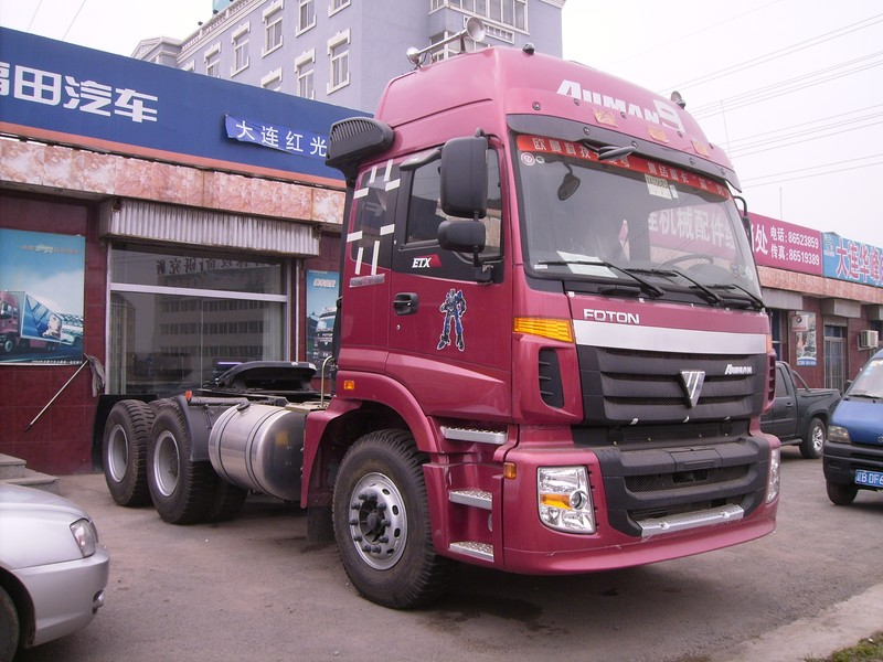 A Foton truck with only base Māori: He taraka Foton ki te turanga anake